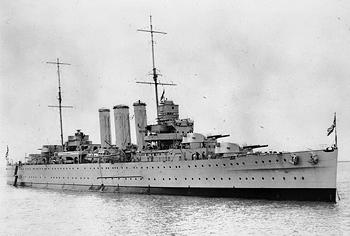 British heavy cruiser HMS CORNWALL at anchor.